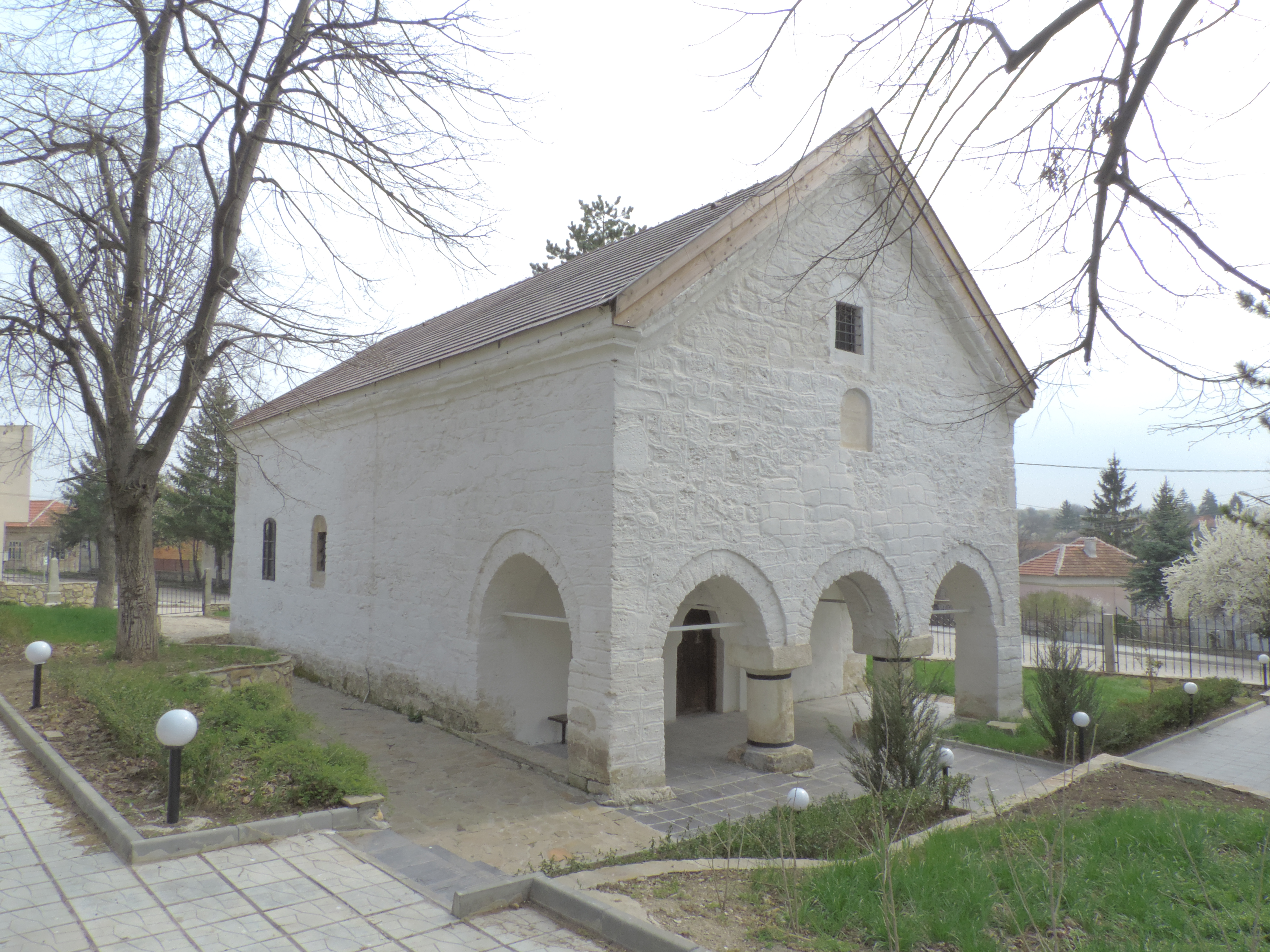 Village Izvor, Dimovo Municipality, Vidin Province, Bulgaria